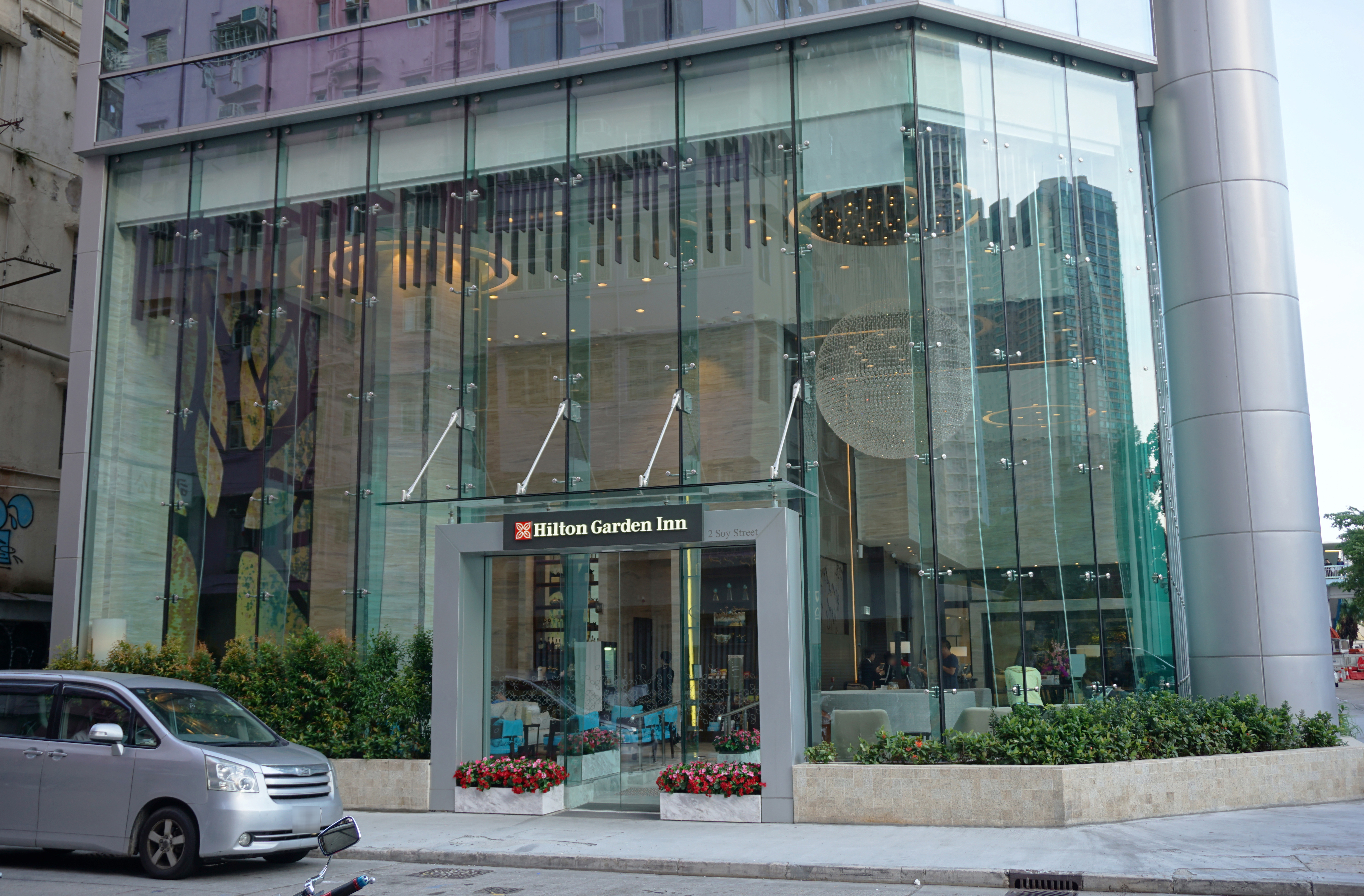 Hilton Garden Inn in Mongkok, Hong Kong.